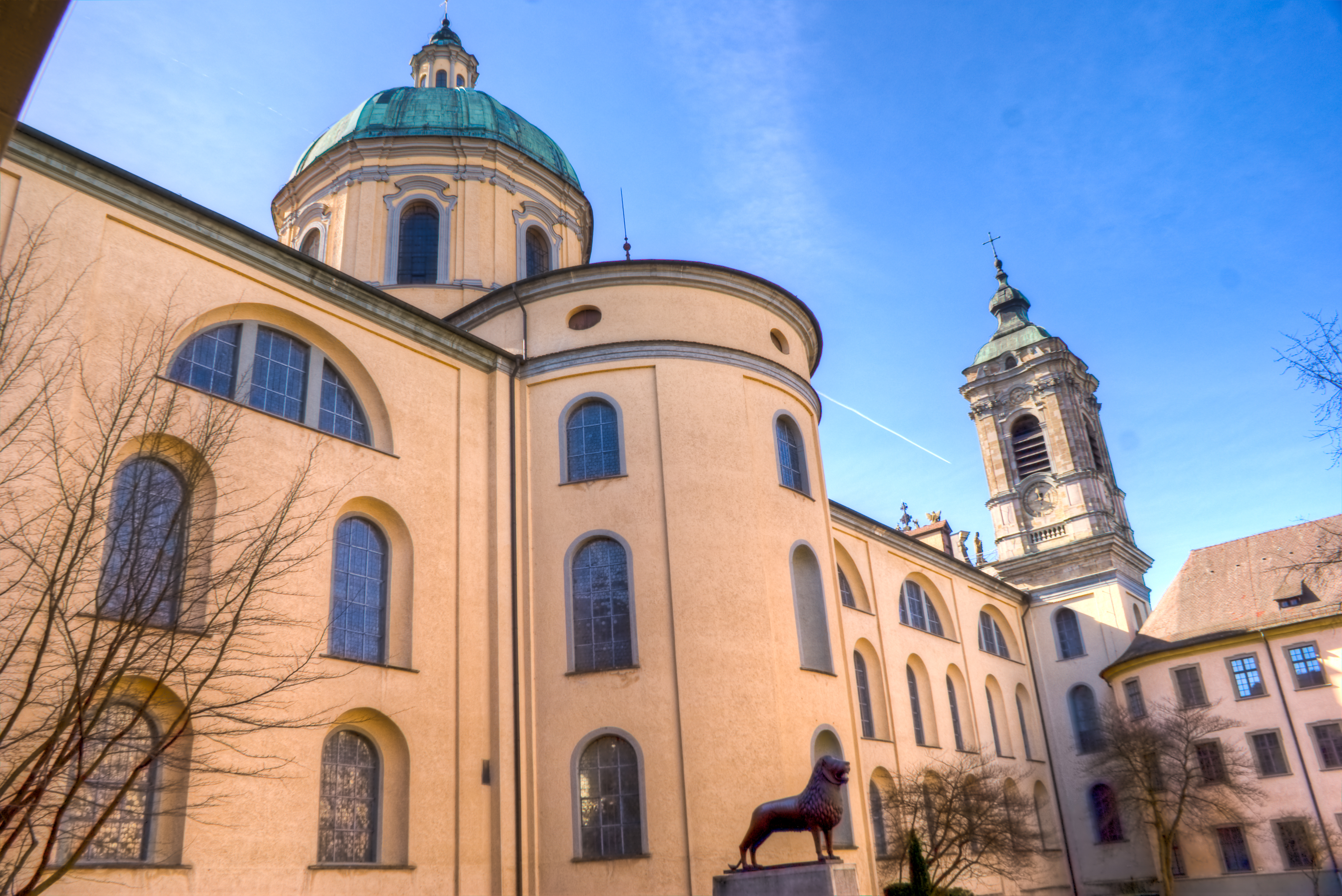 Baroque architecture with Romanesque momentum: the side front of the church by Franz Beer. Because the monastery was founded 1056 by a Welf duke of Bavaria, there is a Bronze statue of the Welf lion.